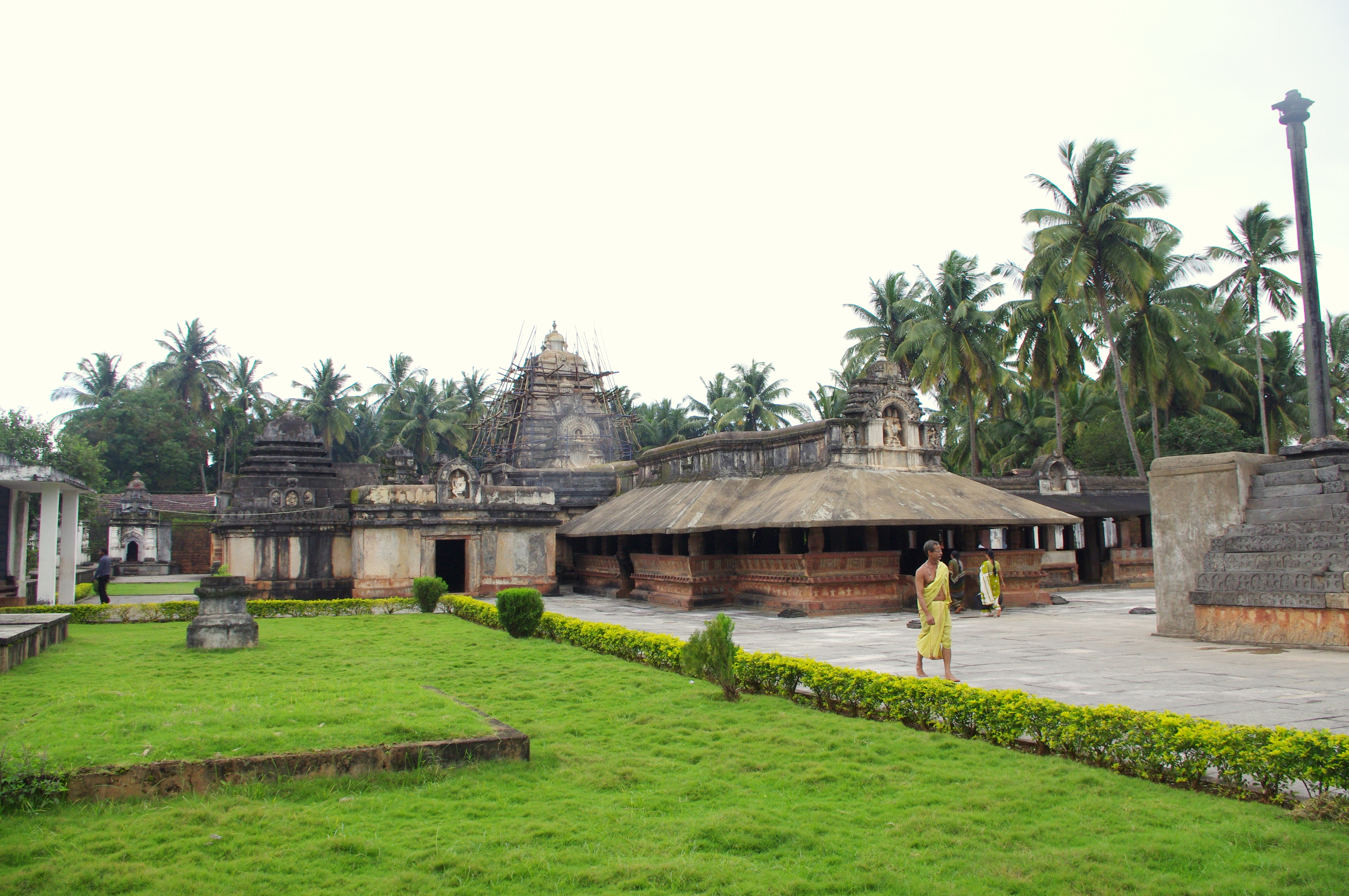 Madhukeshwara Temple built in the 9th century by the Kadamba Dynasty, is famous for its architectural designs and carvings. The temple has several monolithic stone works such as a stone couch and triloka mantapa depicting heaven, earth and the nether. The idols of Lord Shiva and Lord Vishnu can be seen in the temple.